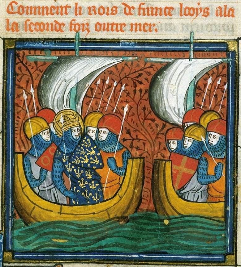 Detail of a miniature of Louis IX sailing off on his second crusade (Tunis). Origin : France, Central (Paris)